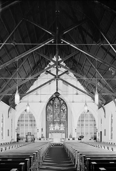 Interior: Calvary Episcopal Church, 102 North Second Street, Memphis, Shelby County, TN